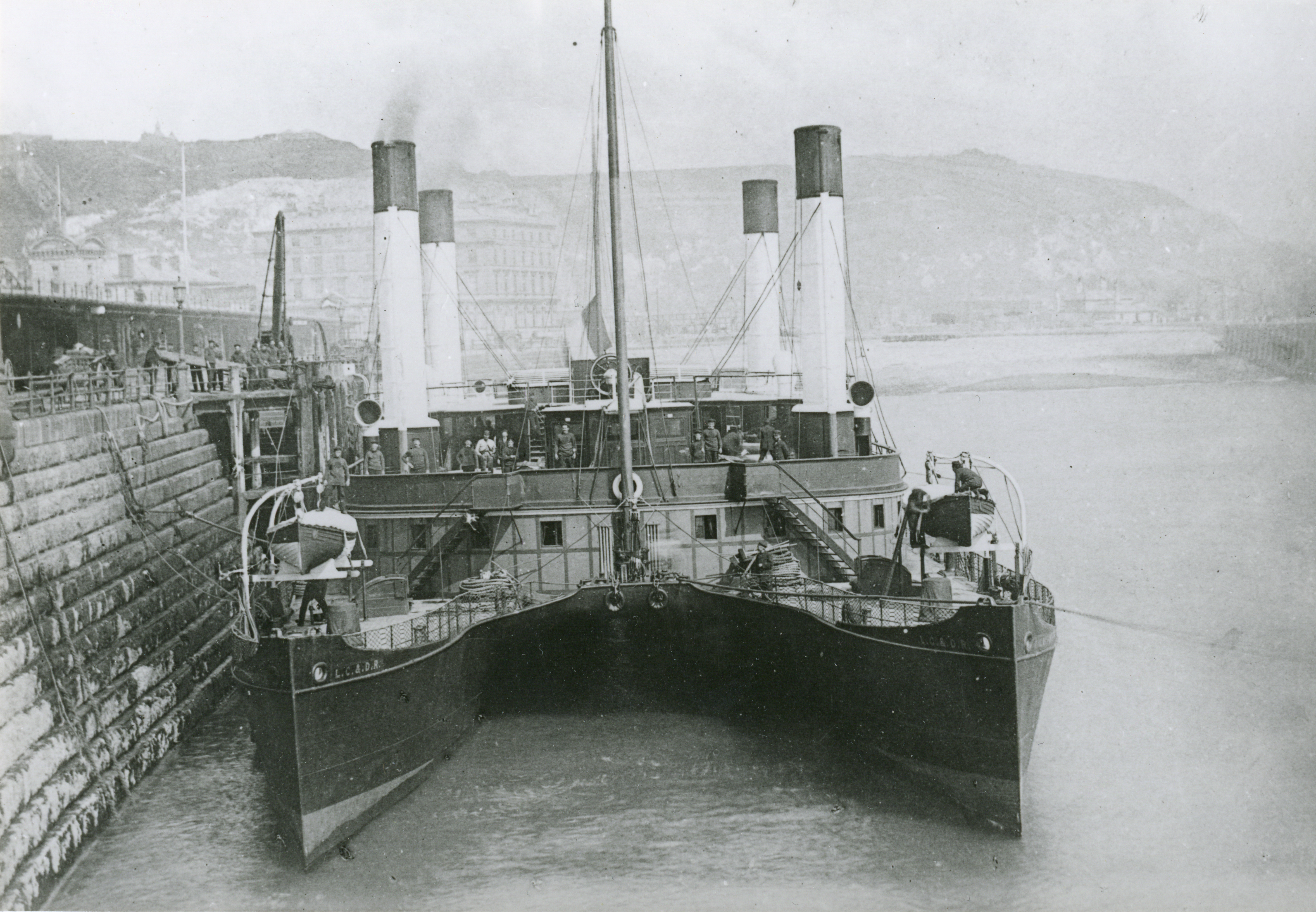 The double hull long-haul ferry CALAIS-DOUVRES (L.C.& D.R. (London, Chatham and Dover Railway)) lying in Dover in the 1880s. The two hulls are held together by iron ribs. The paddle wheels sit between the hulls. 4 funnels. Direct steam pressure. 600 hp. The speed was 13 knots. Taken out of traffic in 1887. Sold for coal storage on the Thames after lying up in Tilbury.